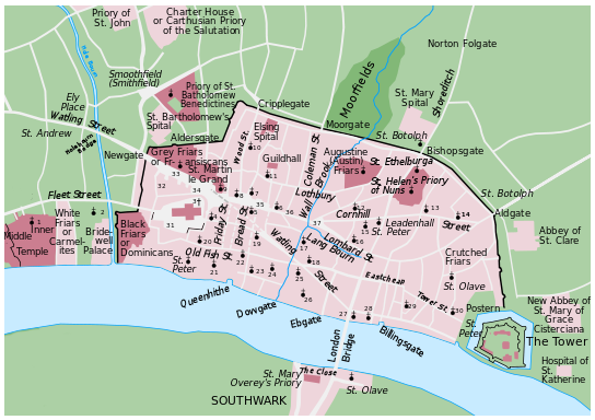 The city of London in the late middle ages.